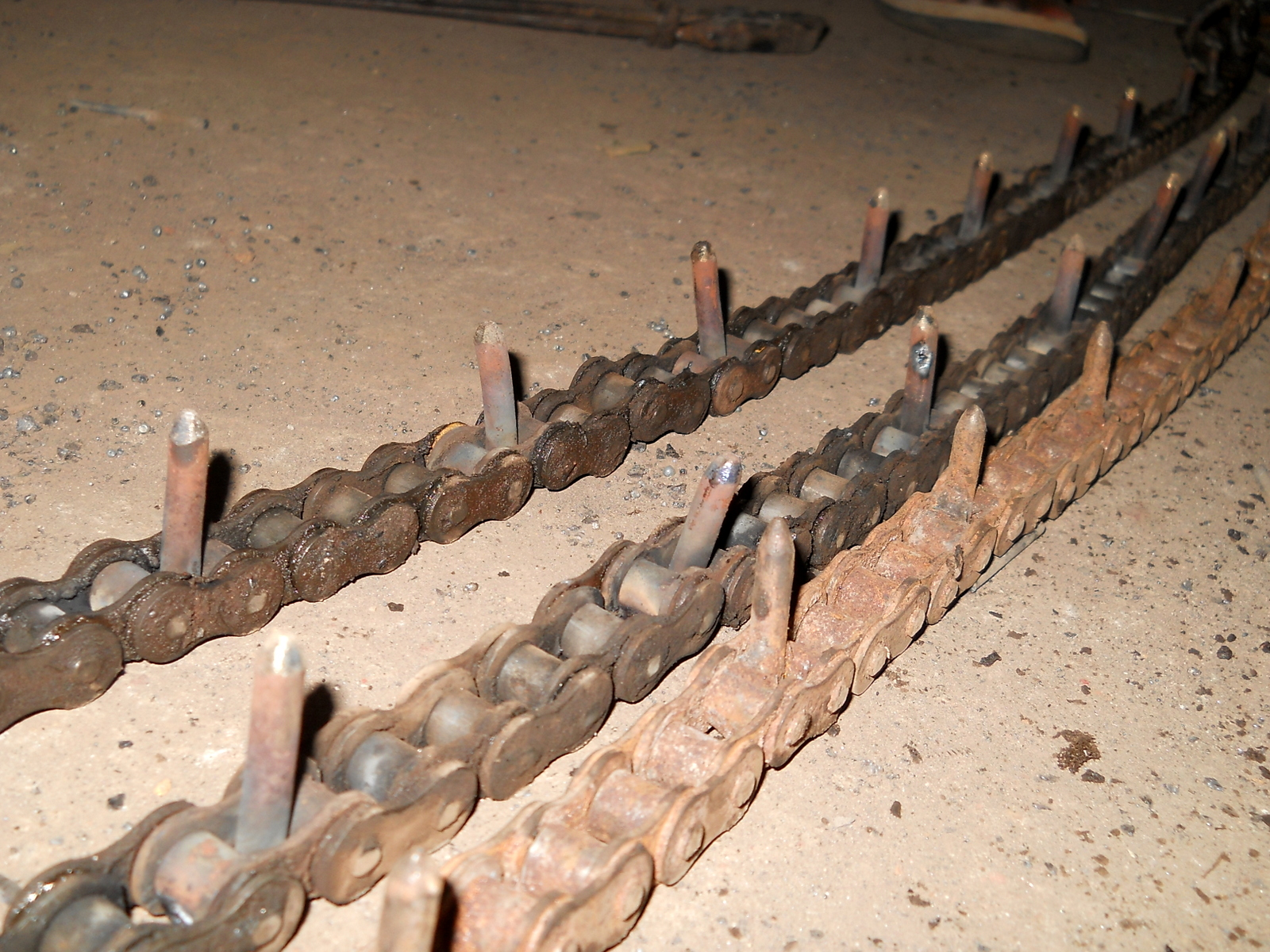 Special chain with spikes to control elephants in musth (banned by law).